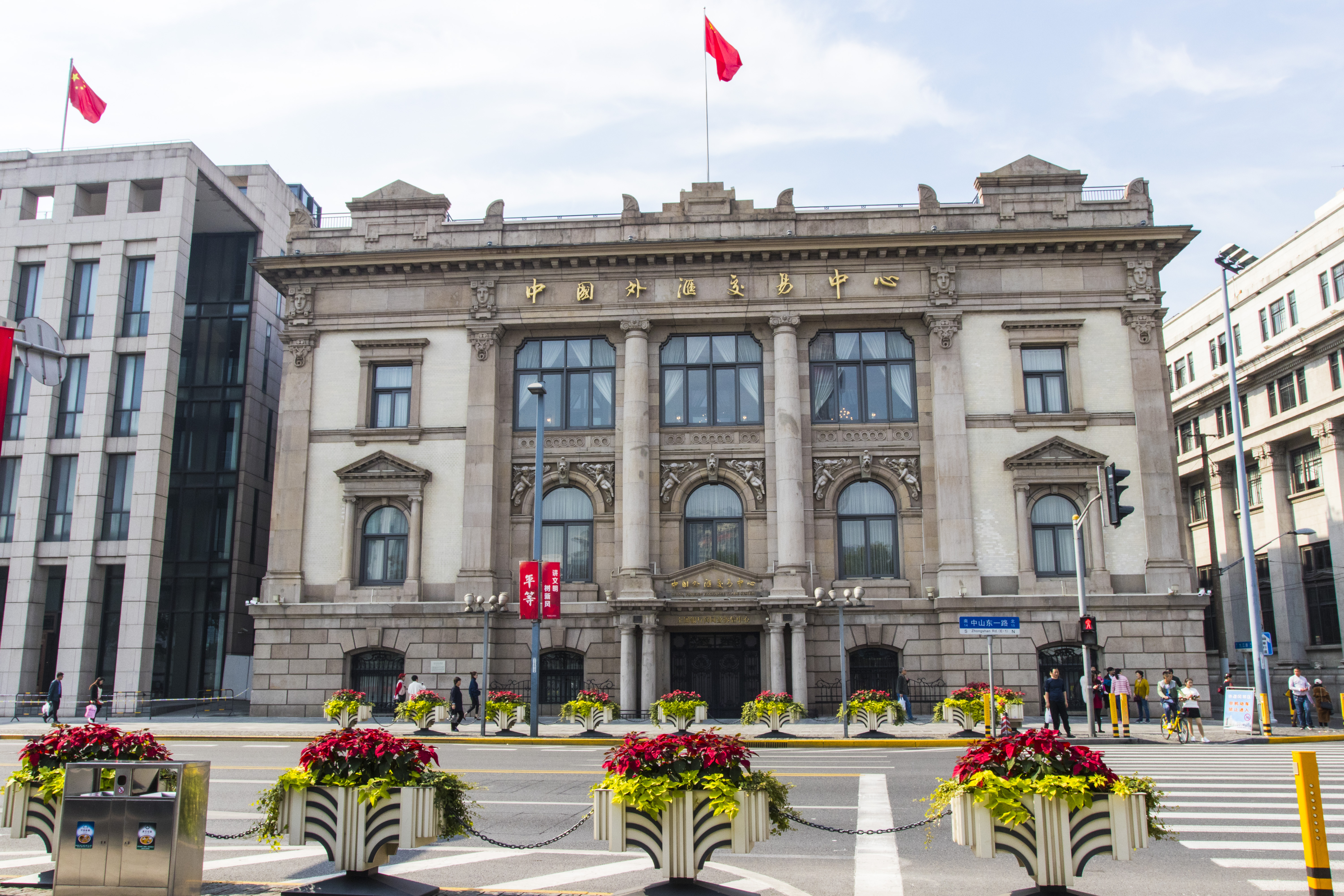 Former Russo-Asiatic Bank Building, No.15 Zhongshan Rd (E1), Huangpu District, Shanghai 中文（中国大陆）: 中山东一路15号，原华俄道胜银行大楼